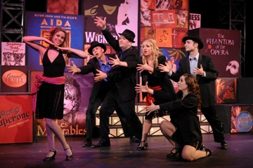 Picture from On Broadway musical at Tibbits Opera House, summer 2010.